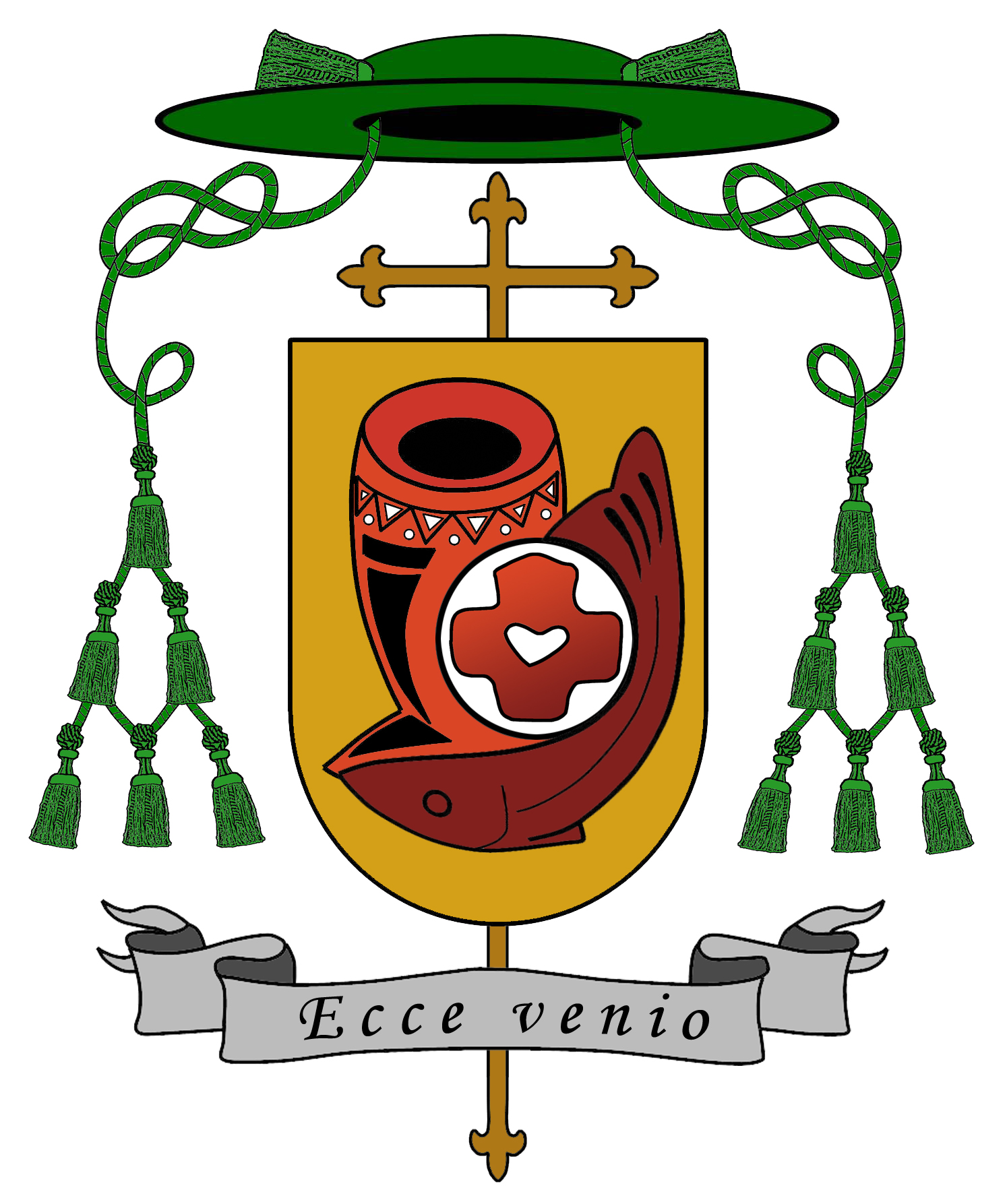 Coat of arms of bishops, Fr. bp. Leszek Adam Musiałek SCJ Ordinary Diocese of De Aar (Republic of South Africa).